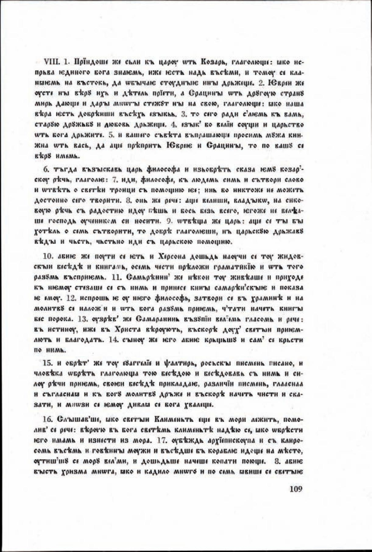 Facsimile reprint of the Vita Constantini MS, Chapter VIII, 1-18, an account of the life of Cyrill-Constantine, ed. by Franciscus Grivec & Franciscus Tomšić, Constantinus et Methodius Thessalonicenses, Fontes, Radovi Staroslavenskog instituta, Vol.4 No.4 September 1960.